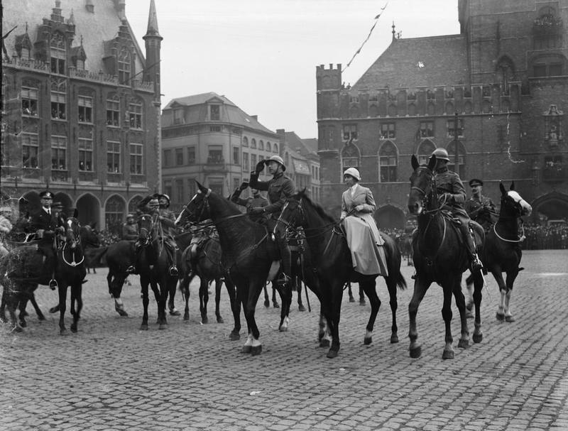 Admiral Roger Keyes and Brigadier-General Alexander Cambridge, 1st Earl of Athlone, in the entourage of King Albert I of the Belgians on the occasion of his entry into Bruges, 25 October 1918. The King is accompanied by his wife, Queen Elisabeth.